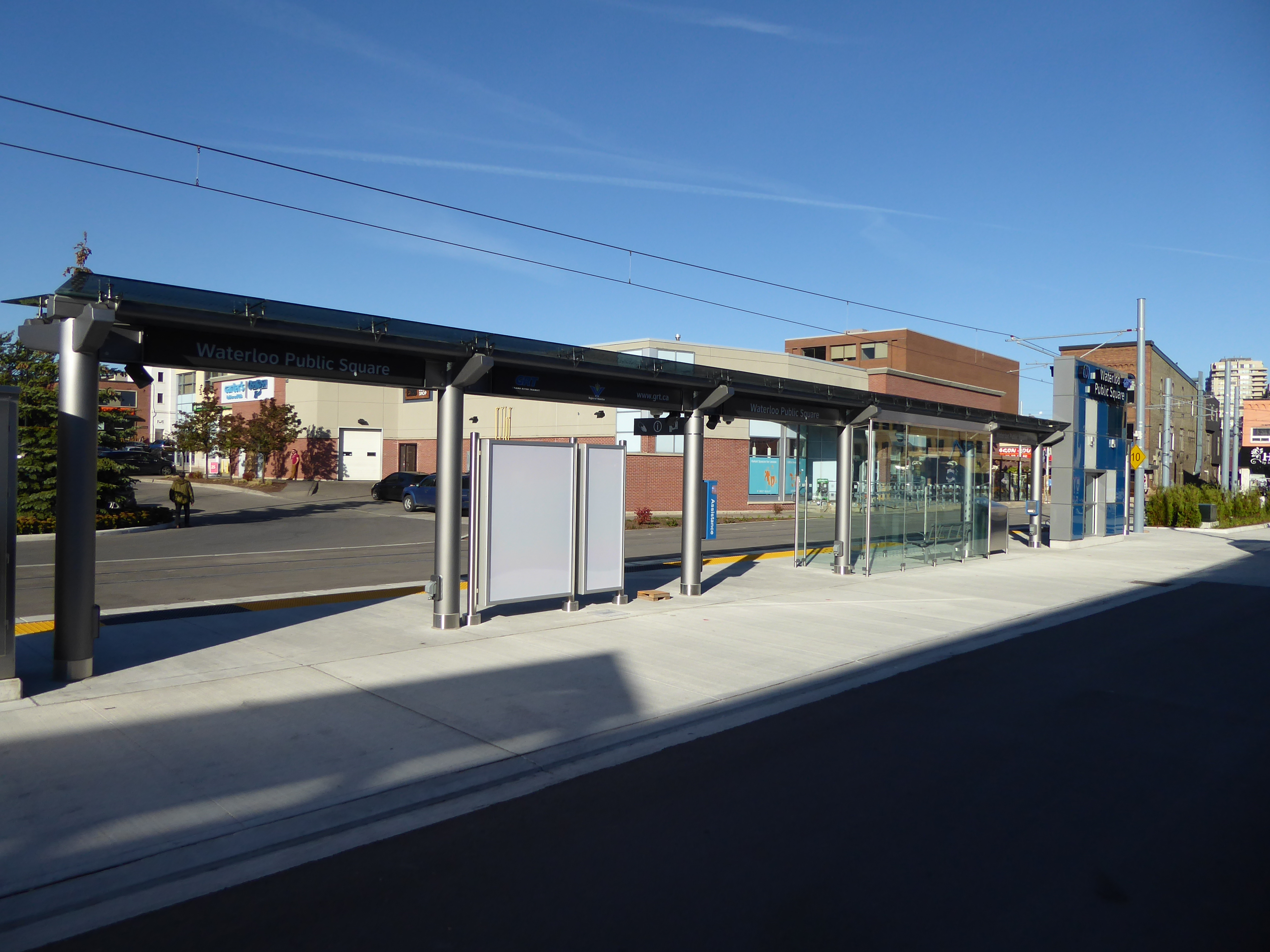 Waterloo Public Square Station of the Ion rapid transit system, photographed structurally complete October 2017